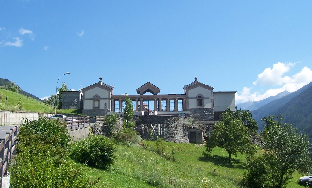 Cimitert (XIII of Fascist' age). Vezza d'Oglio, Val Camonica, Italy